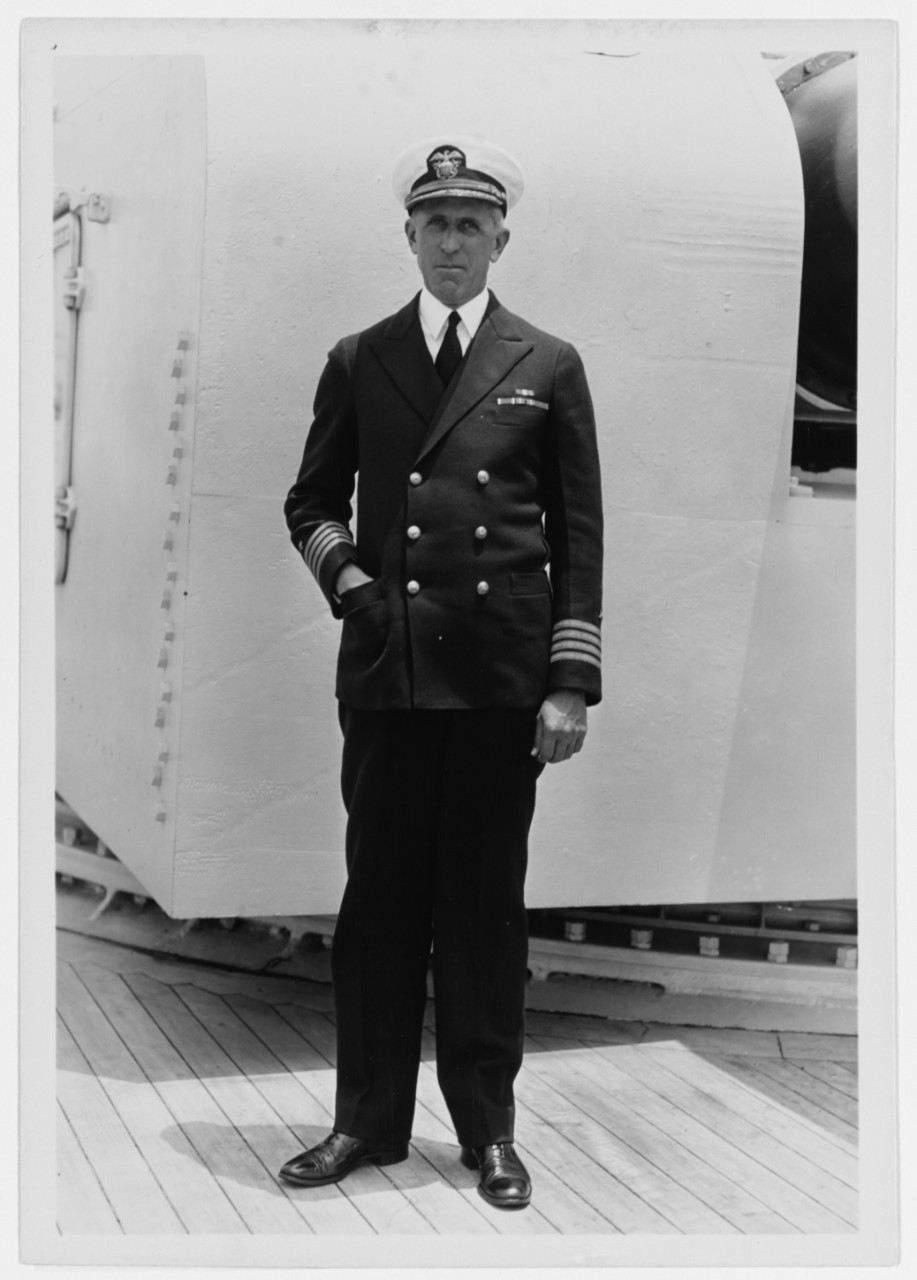 Captain Herbert F. Leary, USN: Commanding Officer of cruiser USS PORTLAND (CA-35), on board his ship circa 1933.